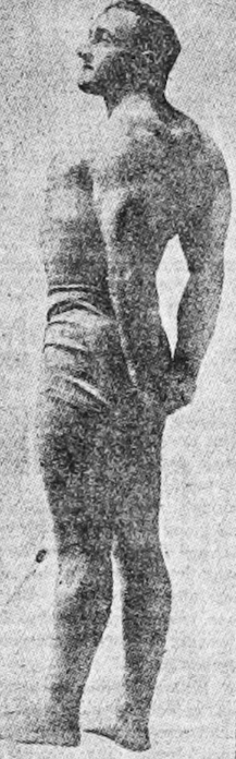 Wladek Zbyszko, Polish strongman and wrestler.